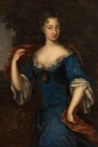 Margareta Gyllenstierna as painted by Martin Mijtens